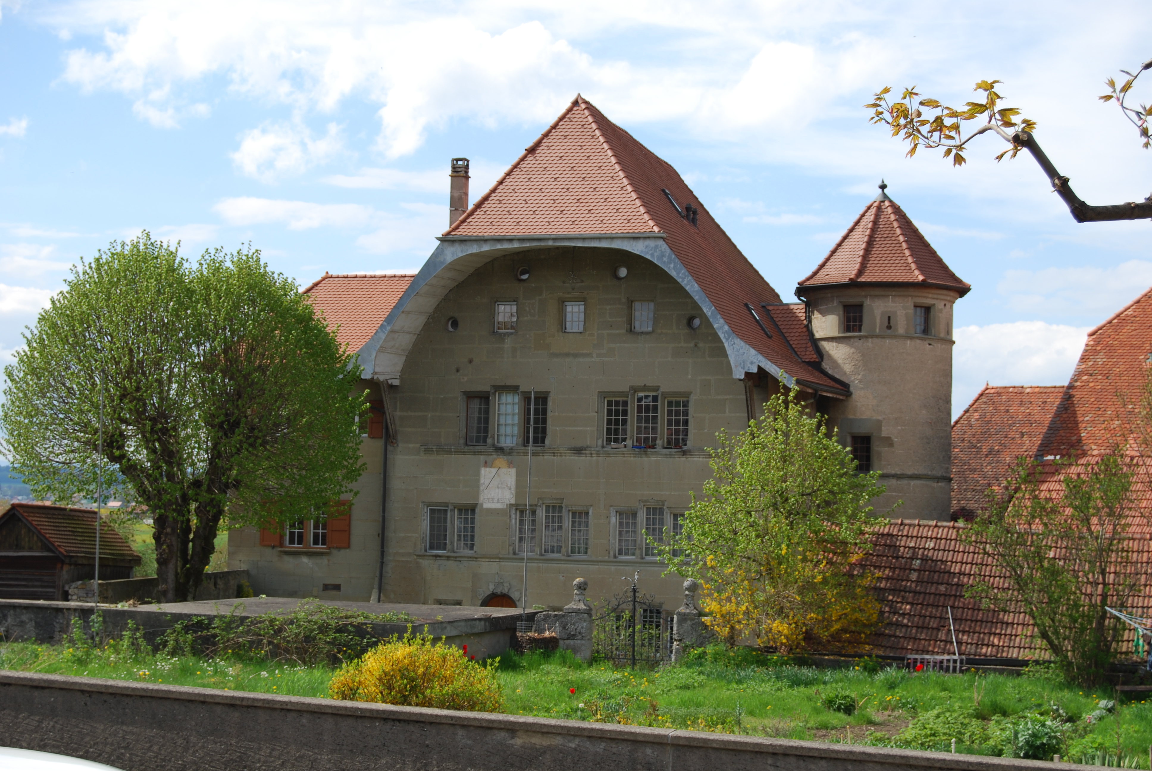 Castle Farvagny, canton of Fribourg, Switzerland